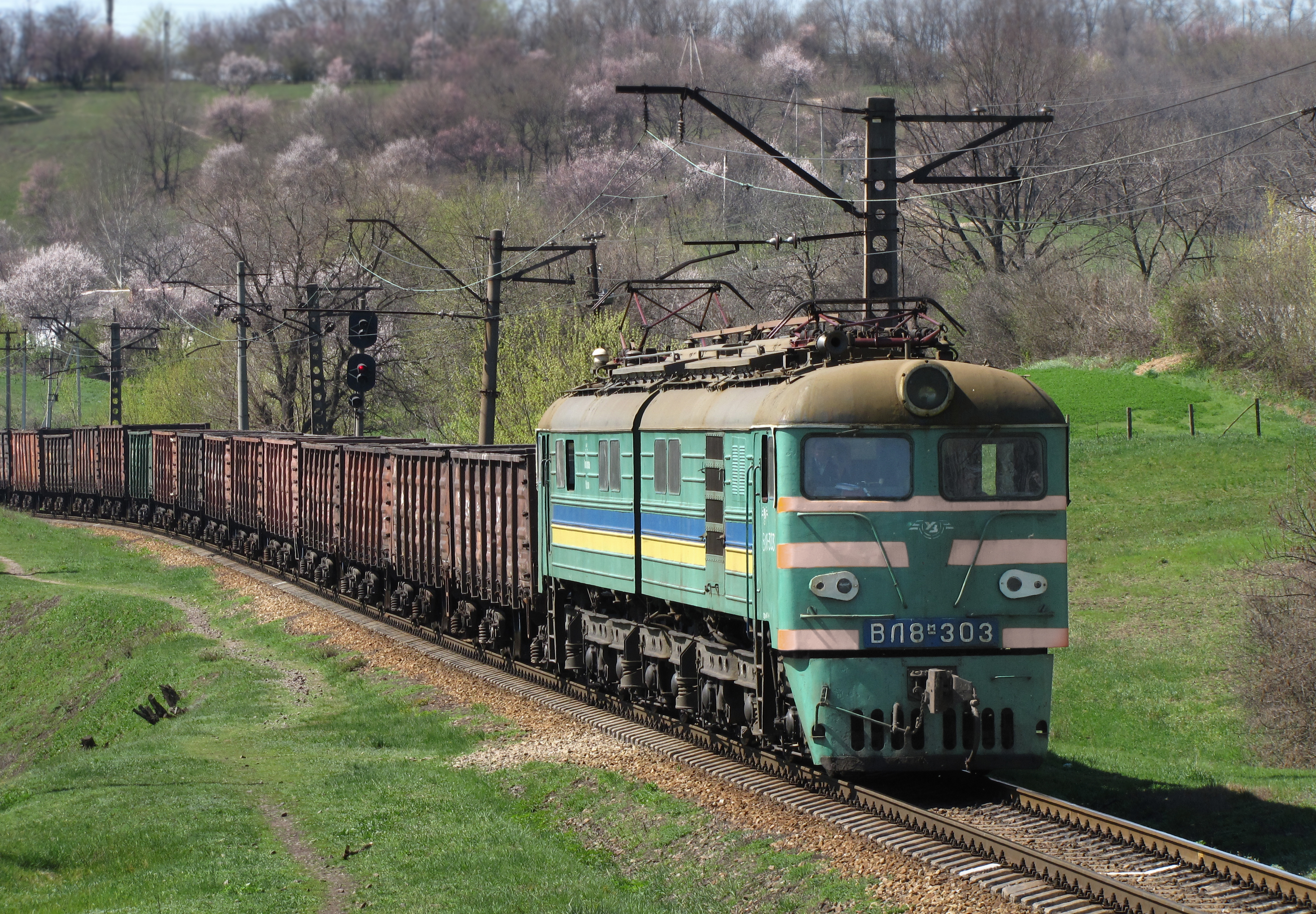 VL8 is a Soviet classic electric freight locomotive.